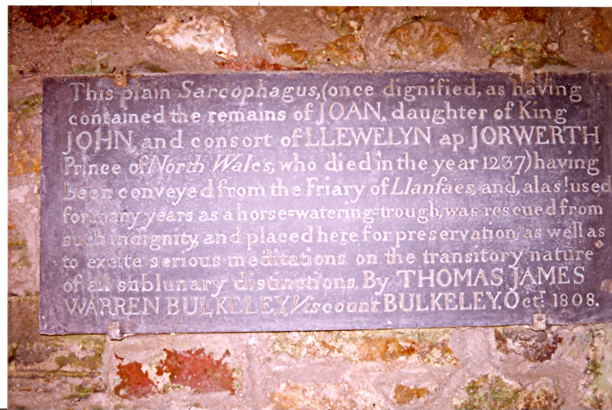 Slate panel above grave of Joan, Lady of Wales, Beaumaris Church, Anglesey